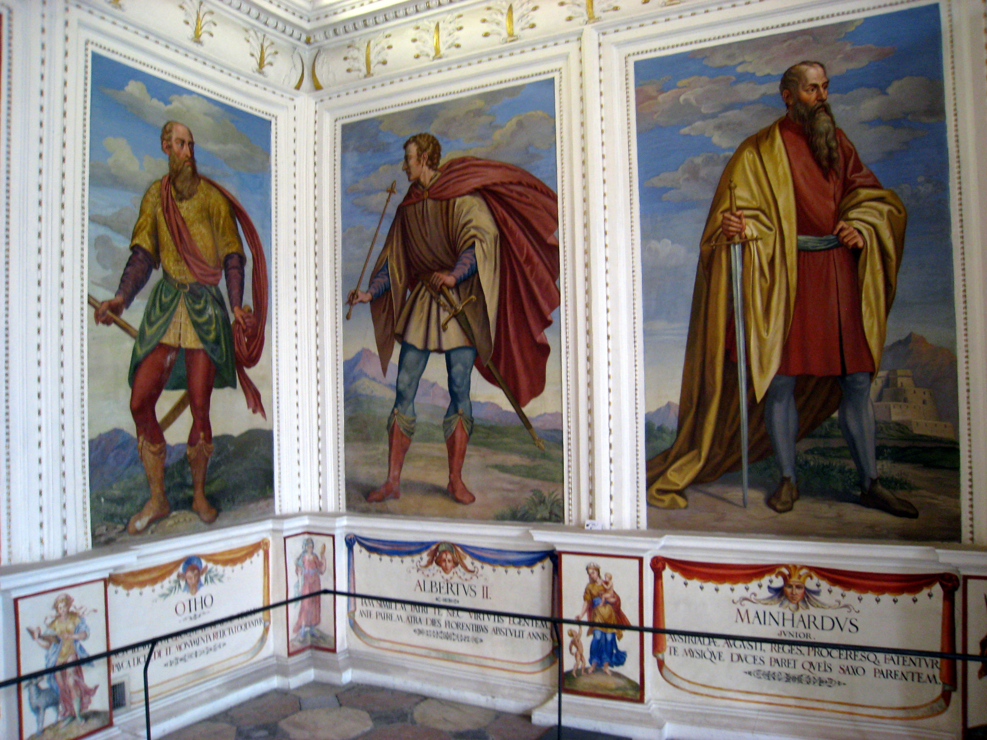 Schloss Ambras, Innsbruck, Austria - Spanish Hall.